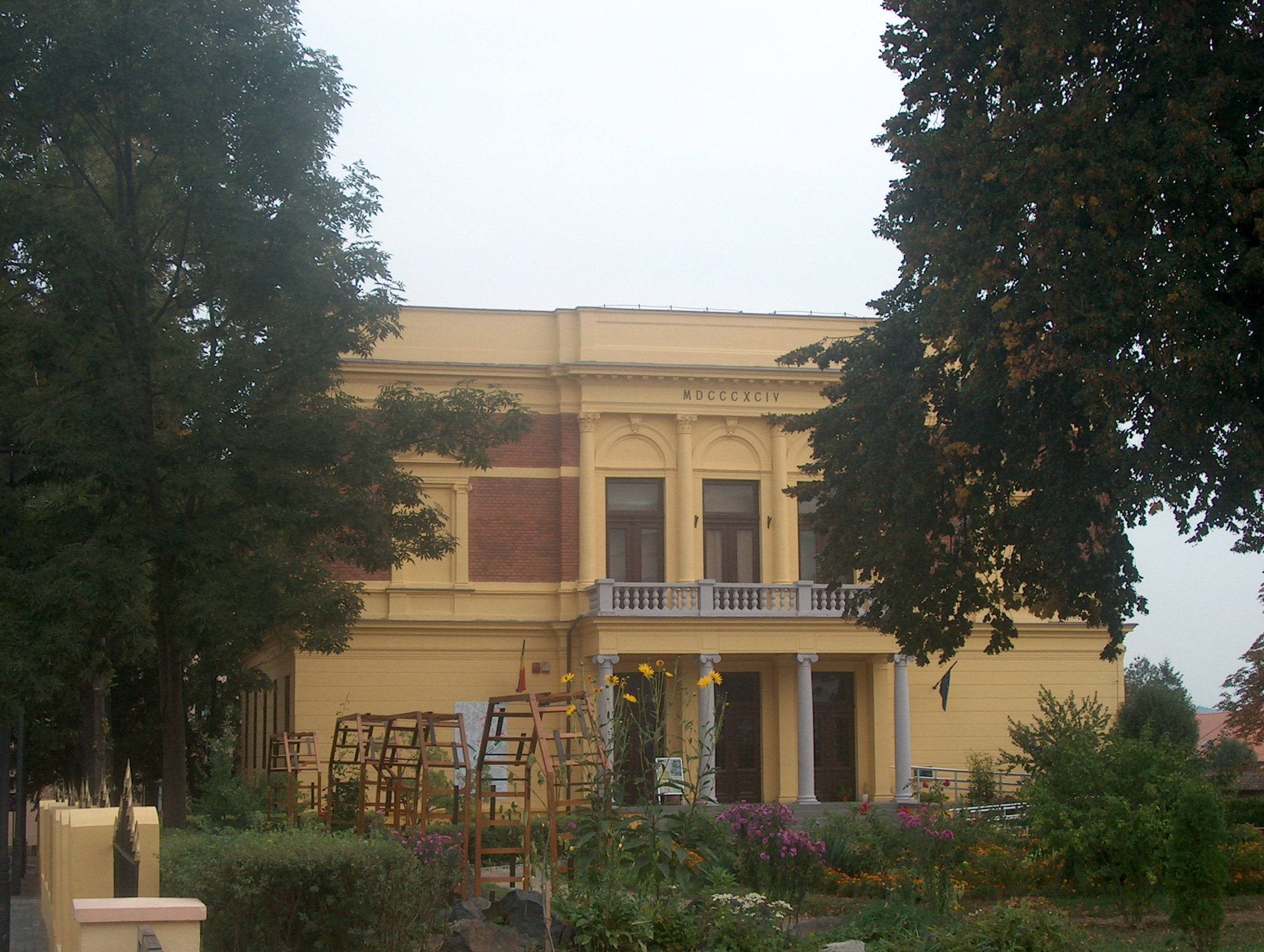 Brukenthal Museul - The building of the Museul Of Natural History